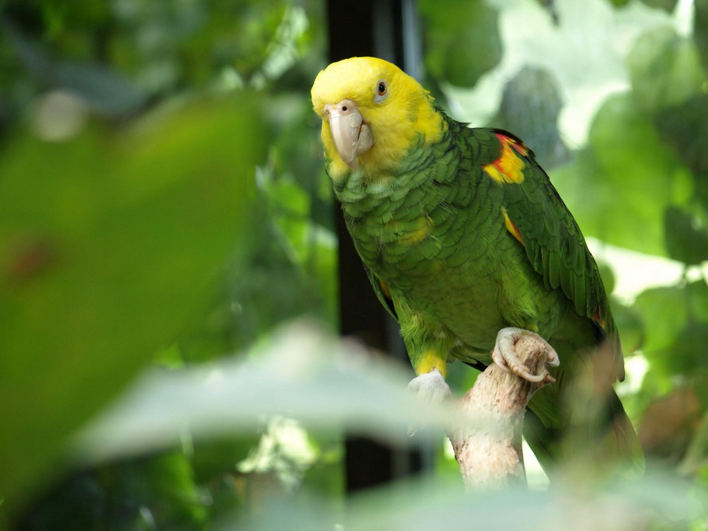 Yellow-headed Amazon (Amazona oratrix) also known as the Yellow-headed Parrot, Double Yellow-headed Amazon in captivity at an aquarium in Vancouver, Canada.